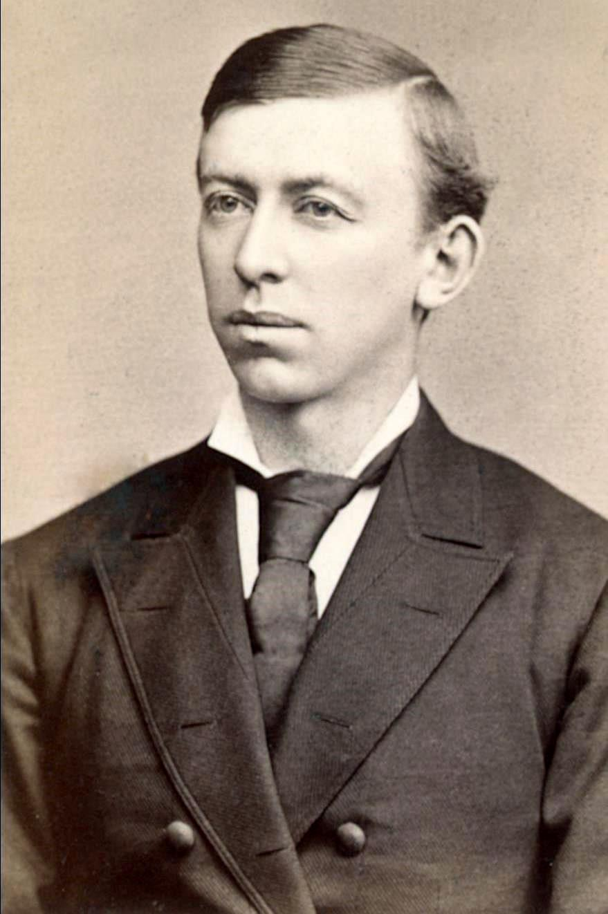 Edgar Fahs Smith (1854-1928), Sc.D. (hon.) 1899, LL.D. (hon.)1906, and M.D. (hon.) 1920, Provost of the University of Pennsylvania, portrait photograph